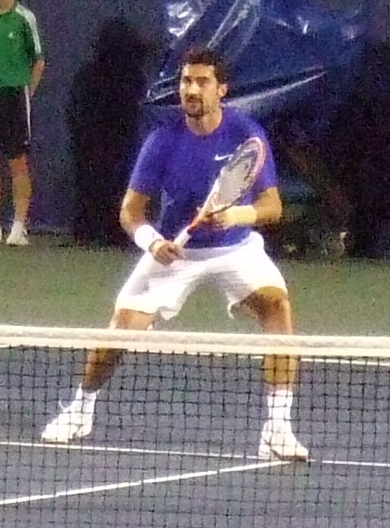 Nenad Zimonjic at the 2008 Western & Southern Financial Group Masters